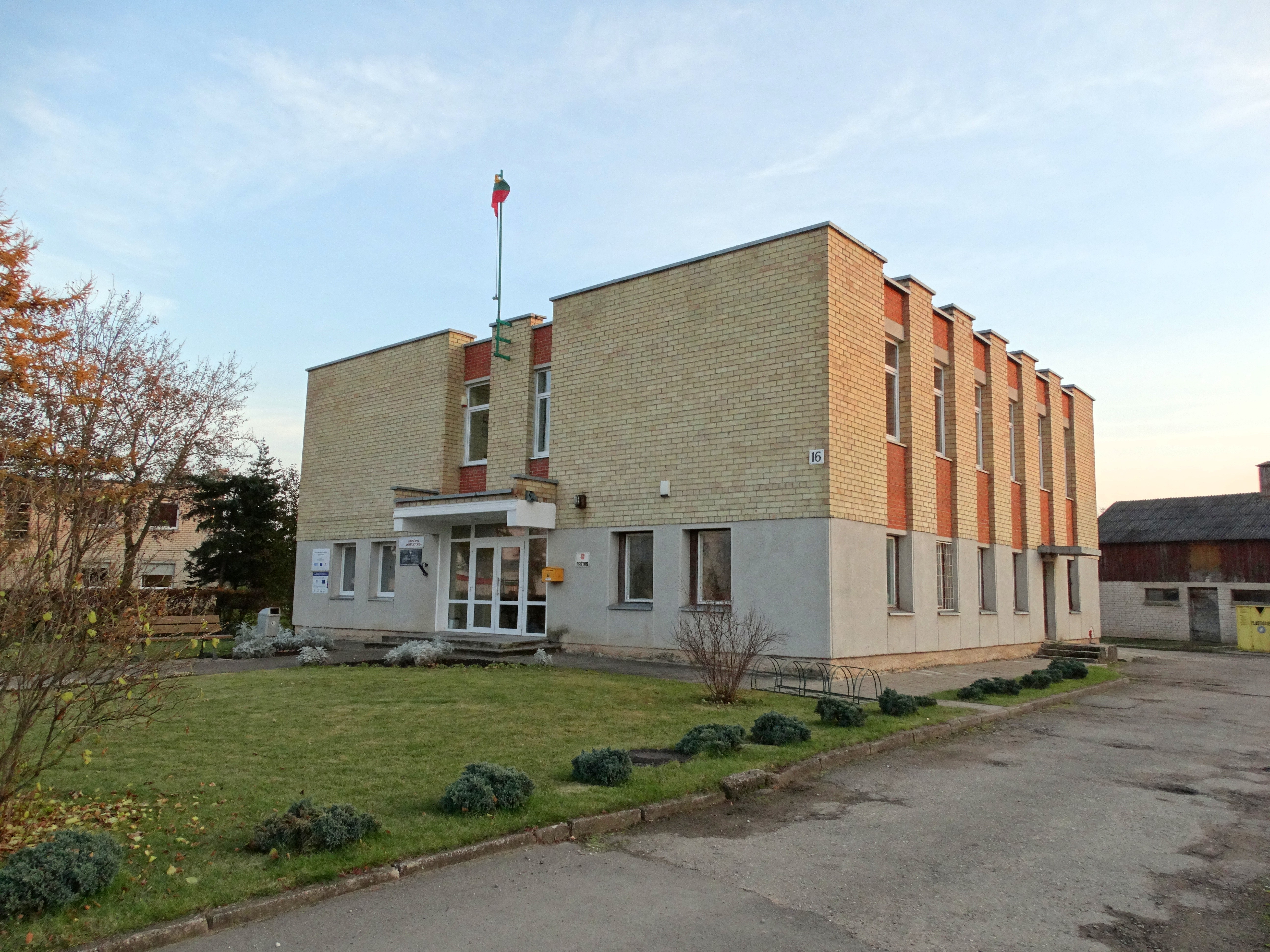 Eldership, Krinčinas, Pasvalys District, Lithuania